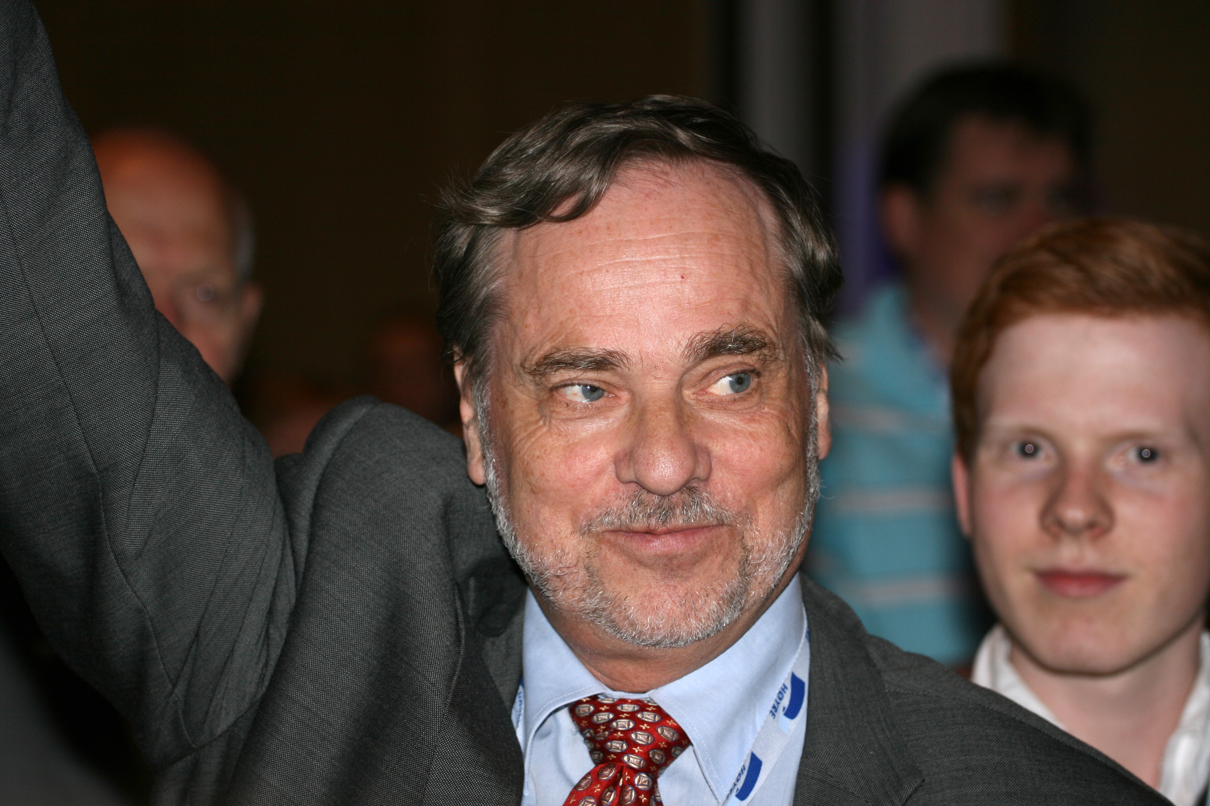 Jan Petersen, Norwegian politician (Conservative Party).